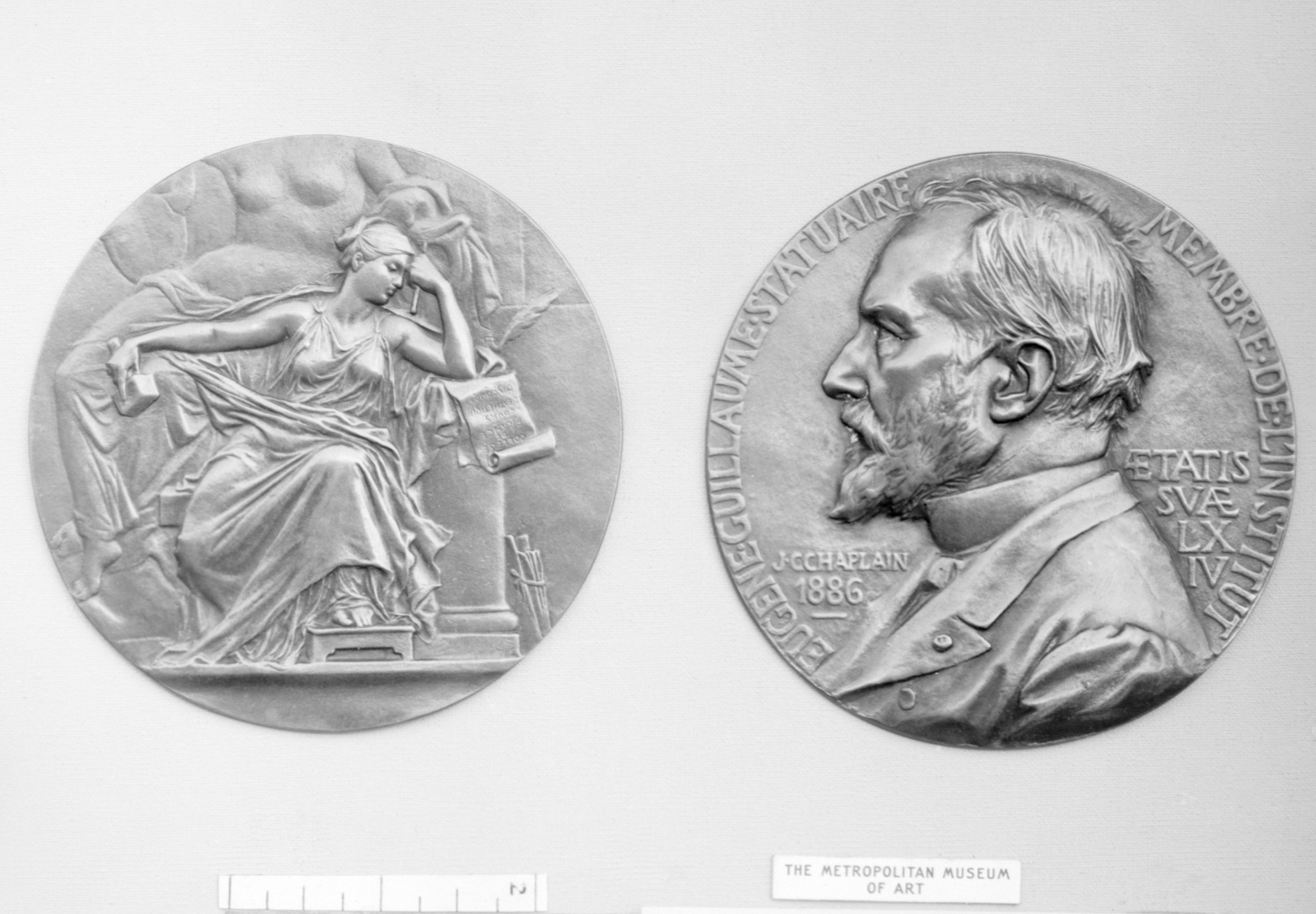 French; Medallion; Medals and Plaquettes